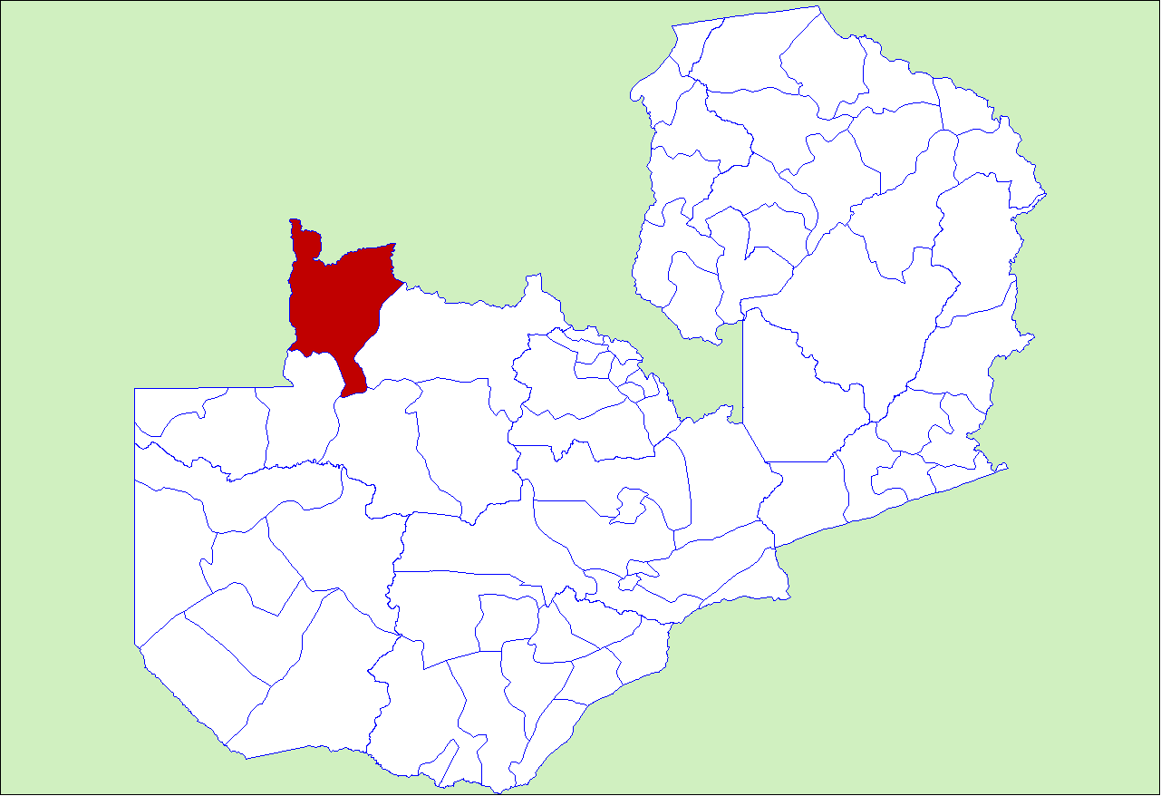 District locator in Zambia